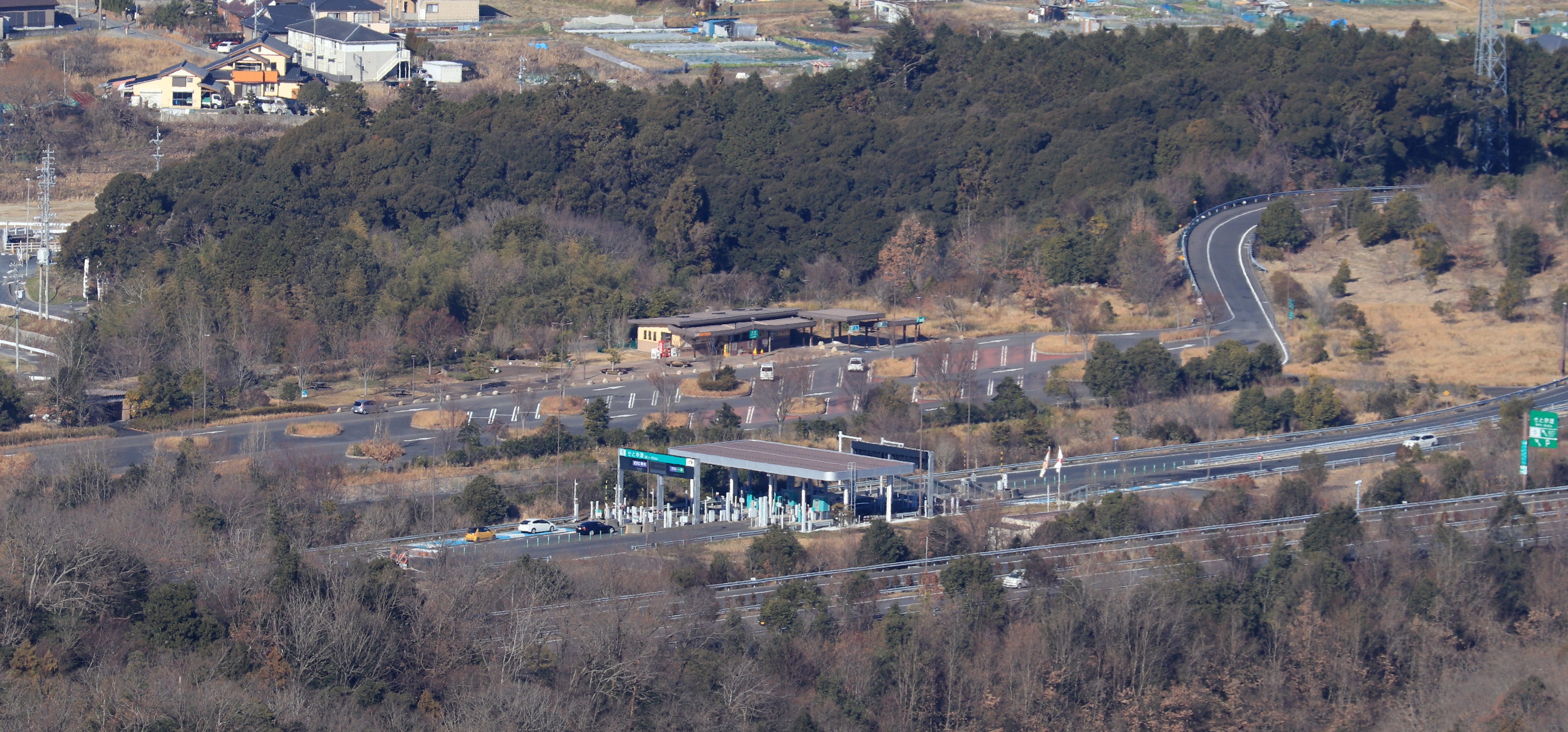 Seto-Akazu Parking Area and Seto-Akazu Interchange on Tōkai-Kanjō Expressway seen from Mount Sanage in Seto, Aichi Prefecture, Japan. Canon EOS Kiss X9